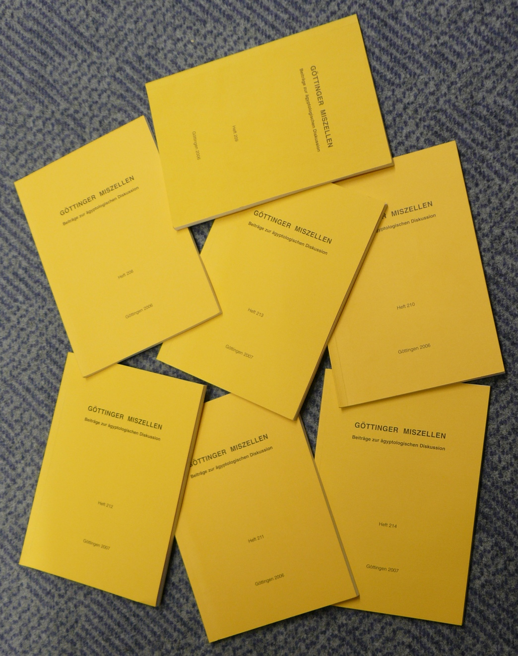 Issues of journal Goettinger Miszellen